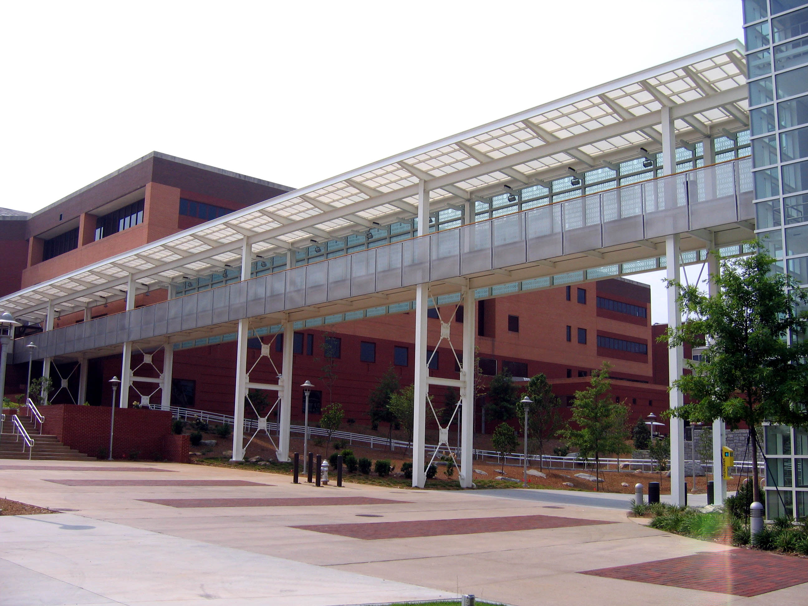 Description: A pedestrian bridge from the College of Computing Building to the Klaus Advanced Computing Building Category:Georgia Institute of Technology Source: I, User:Disavian, took this picture on 2007-05-27